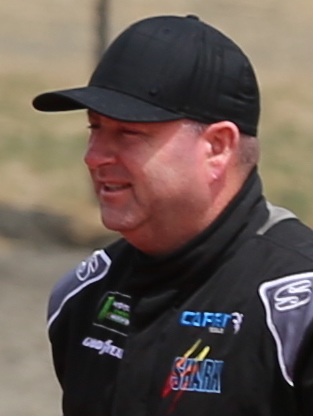 Tommy Regan at Sonoma Raceway in 2017